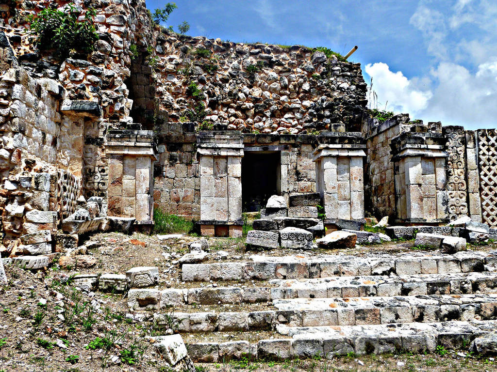 Kabah, Codz Poop palace, side view.